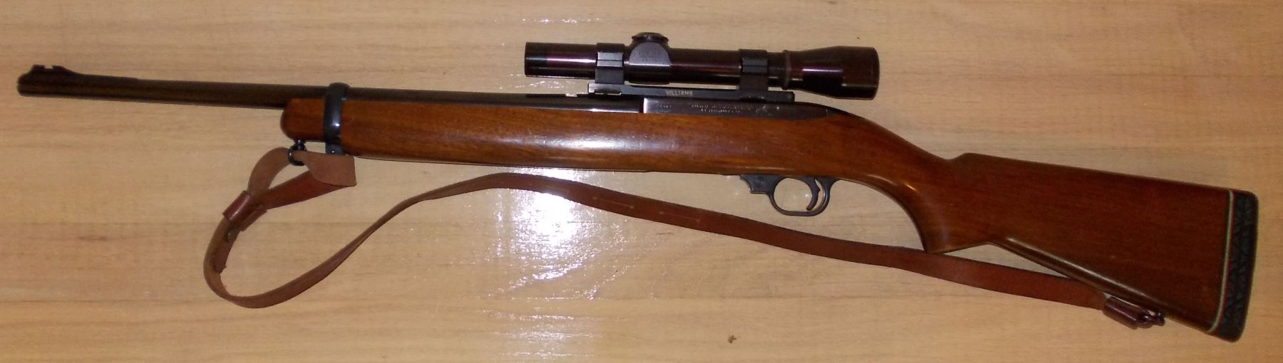 General view, Ruger Deerstalker 44 magnum semiauto rifle with Leupold scope on Williams mount